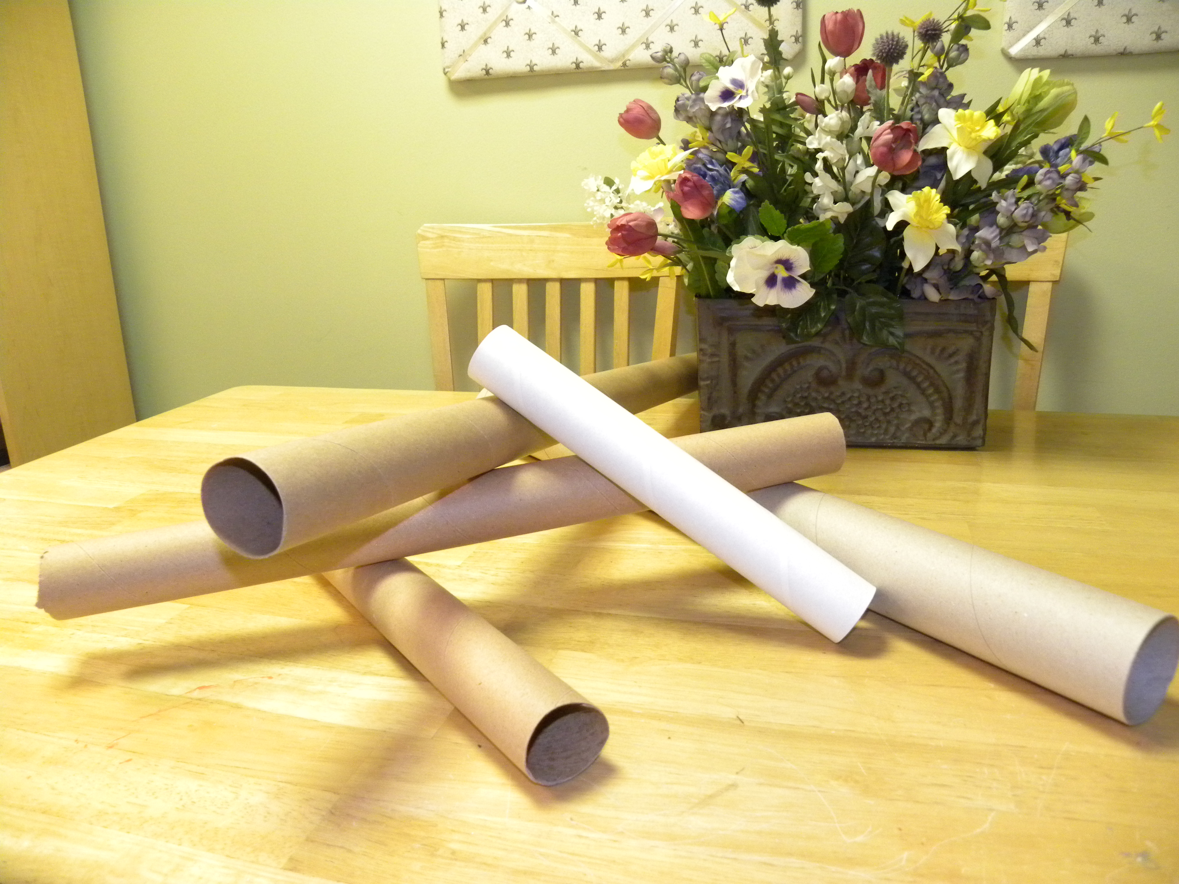 Alternate view of a pristine doot collection.